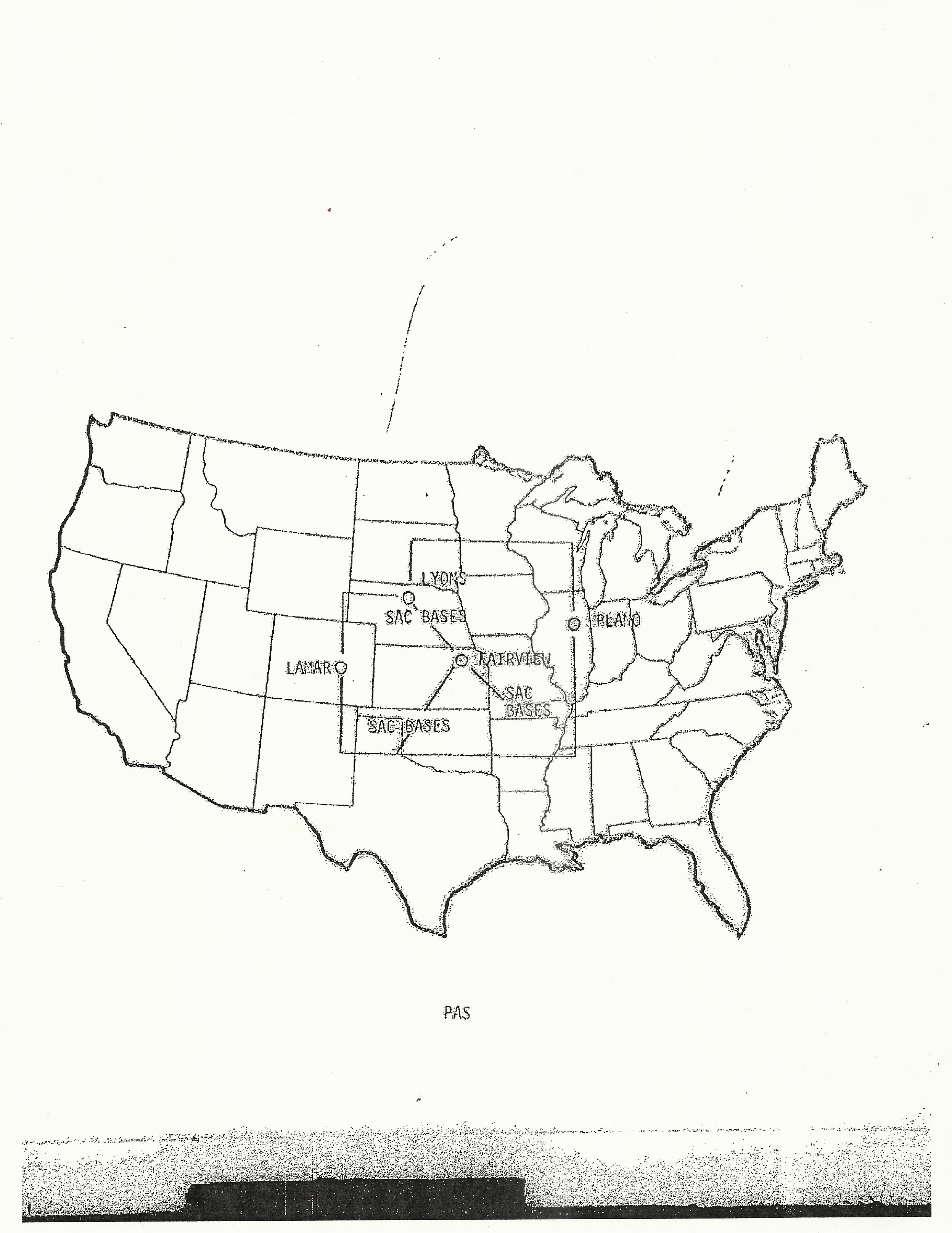 Outline of Primary Alert System